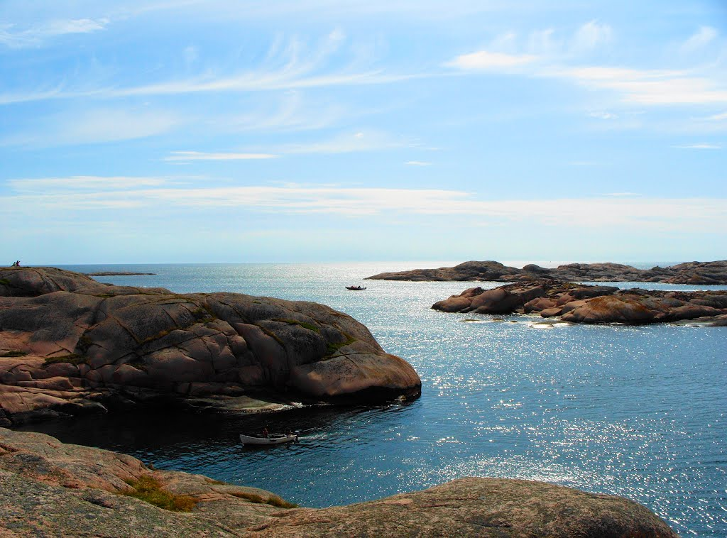 Landscape on Smögen Island, Bohuslän province (Sweden)